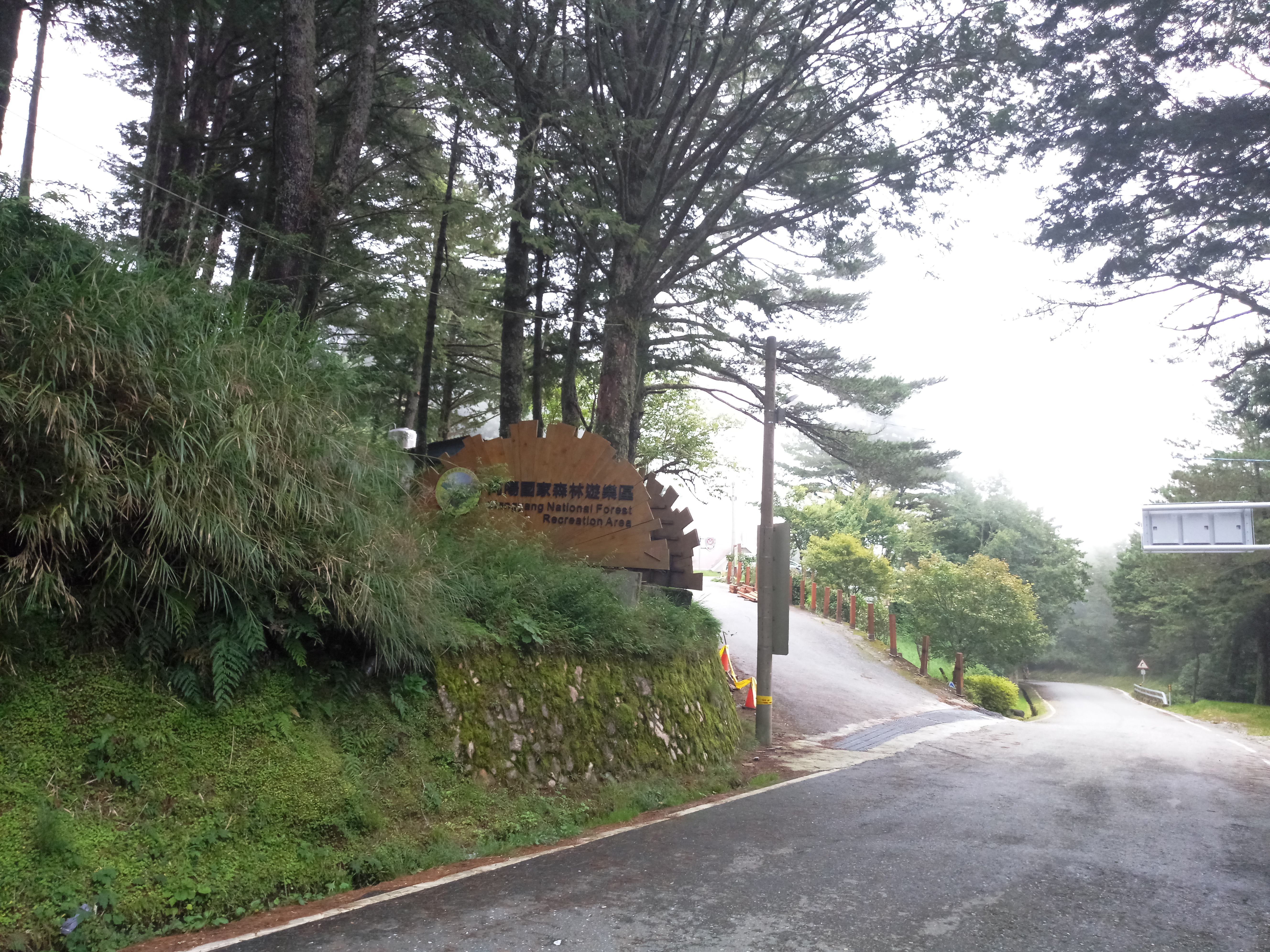 Siangyang National Forest Recreation Area